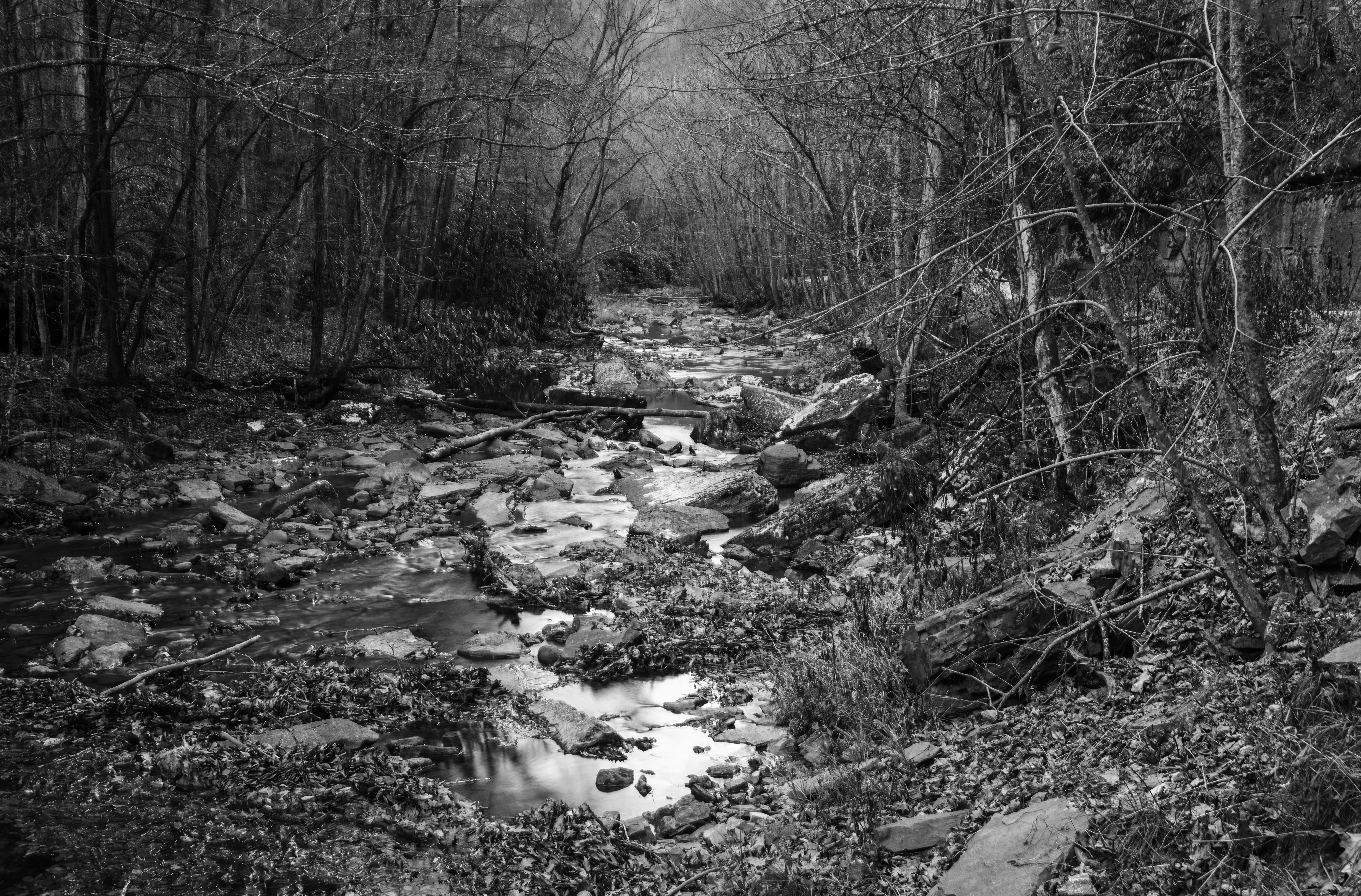 Downstream from Campbell Falls, Camp Creek State Park, Mercer County, West Virginia.